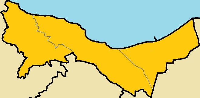 Karavostasi with quarters (de jure).